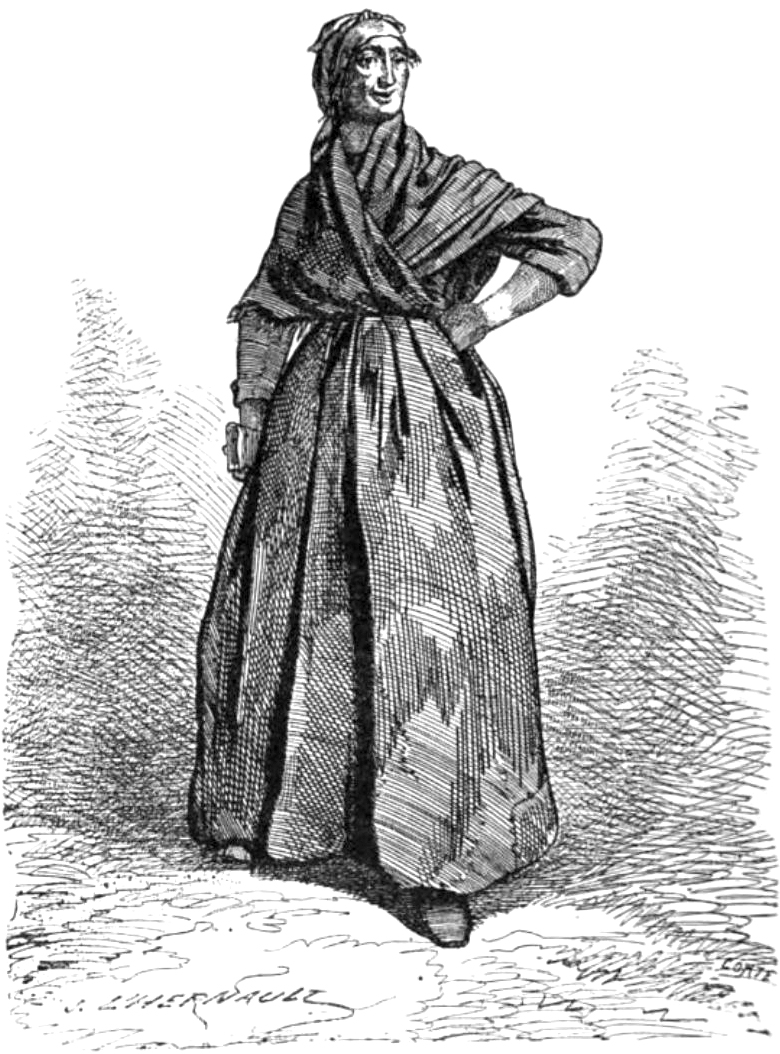 Madame Lecœur, owner of the Cabinet des chiffonniers (Cité Doré). Etching by Gustave Janet, after Charles Yriarte (1832–1898) [L'Hernault, dessin & Comte, sculpt. ???]